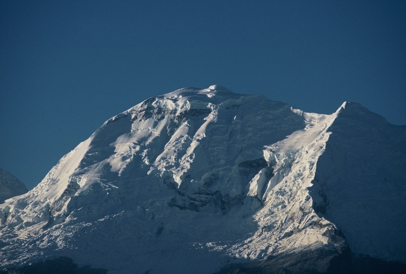 Huascaran mountain seen form north